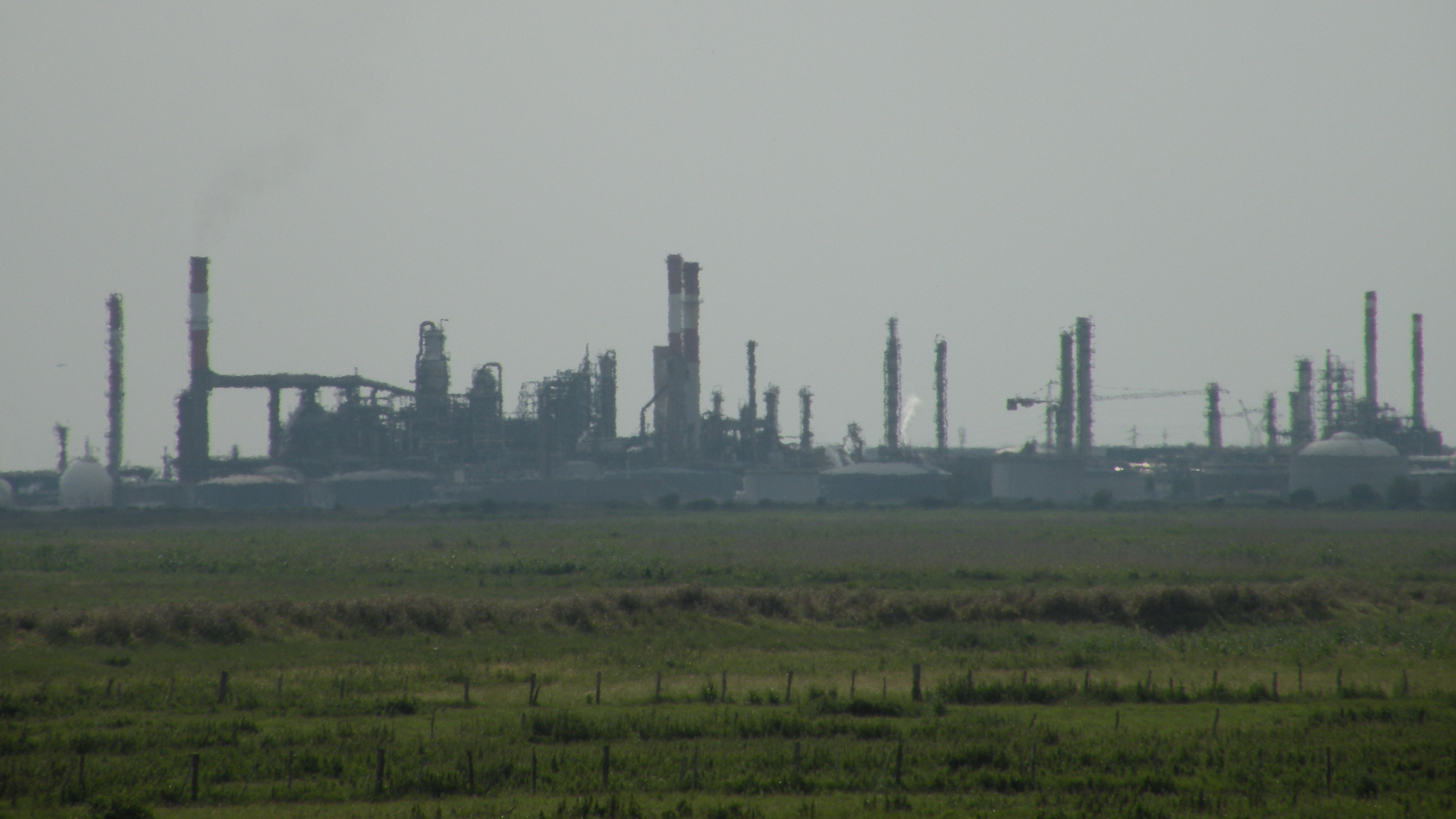 The oil refinery of Donges seen from Lavau-sur-Loire.